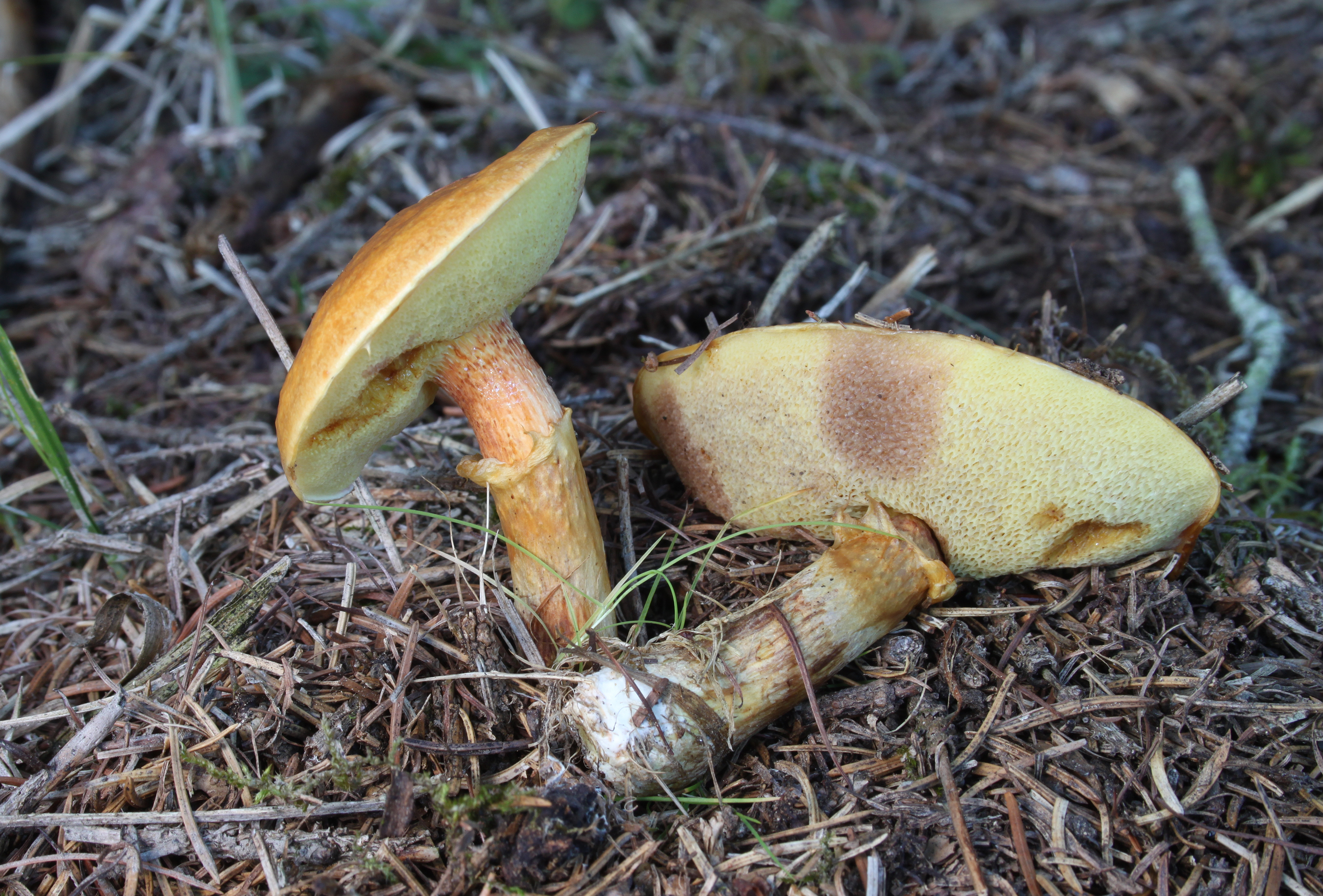 Greville's Bolete, Larch Bolete or Bovine Bolete Suillus grevillei, Family: Suillaceae, Location: Germany, Biberach